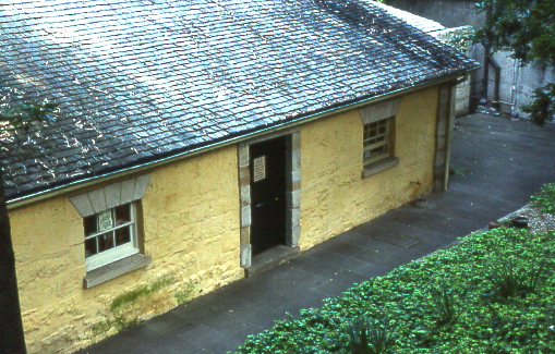 Cadmans Cottage photo copyright Neil Paton 2007